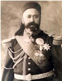 Portrait of the politician Sadok Ghileb